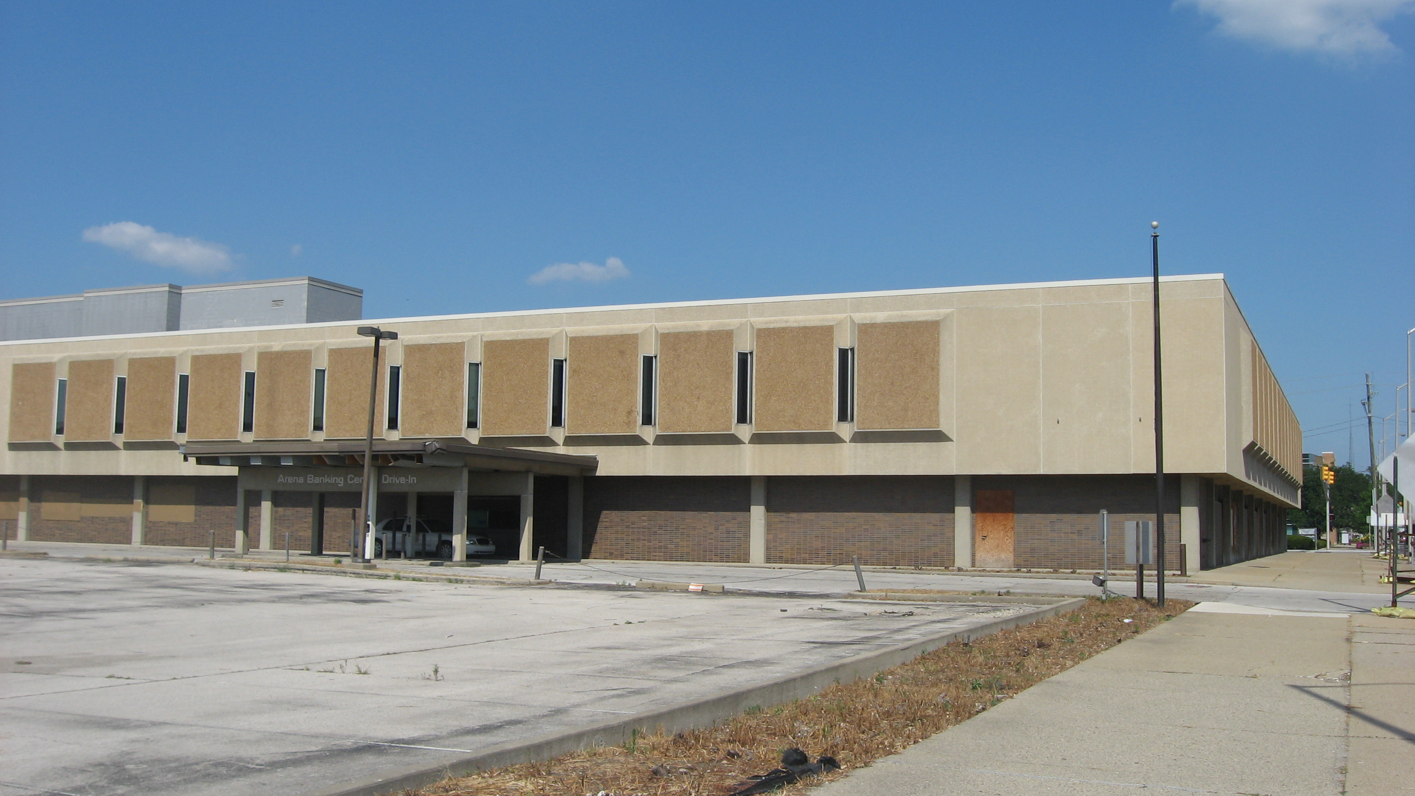 Side of a bank at 419-425 E. Washington Street in Indianapolis, Indiana, United States. The bank occupies the site of the Jackson Buildings, which were listed on the National Register of Historic Places before it was destroyed.